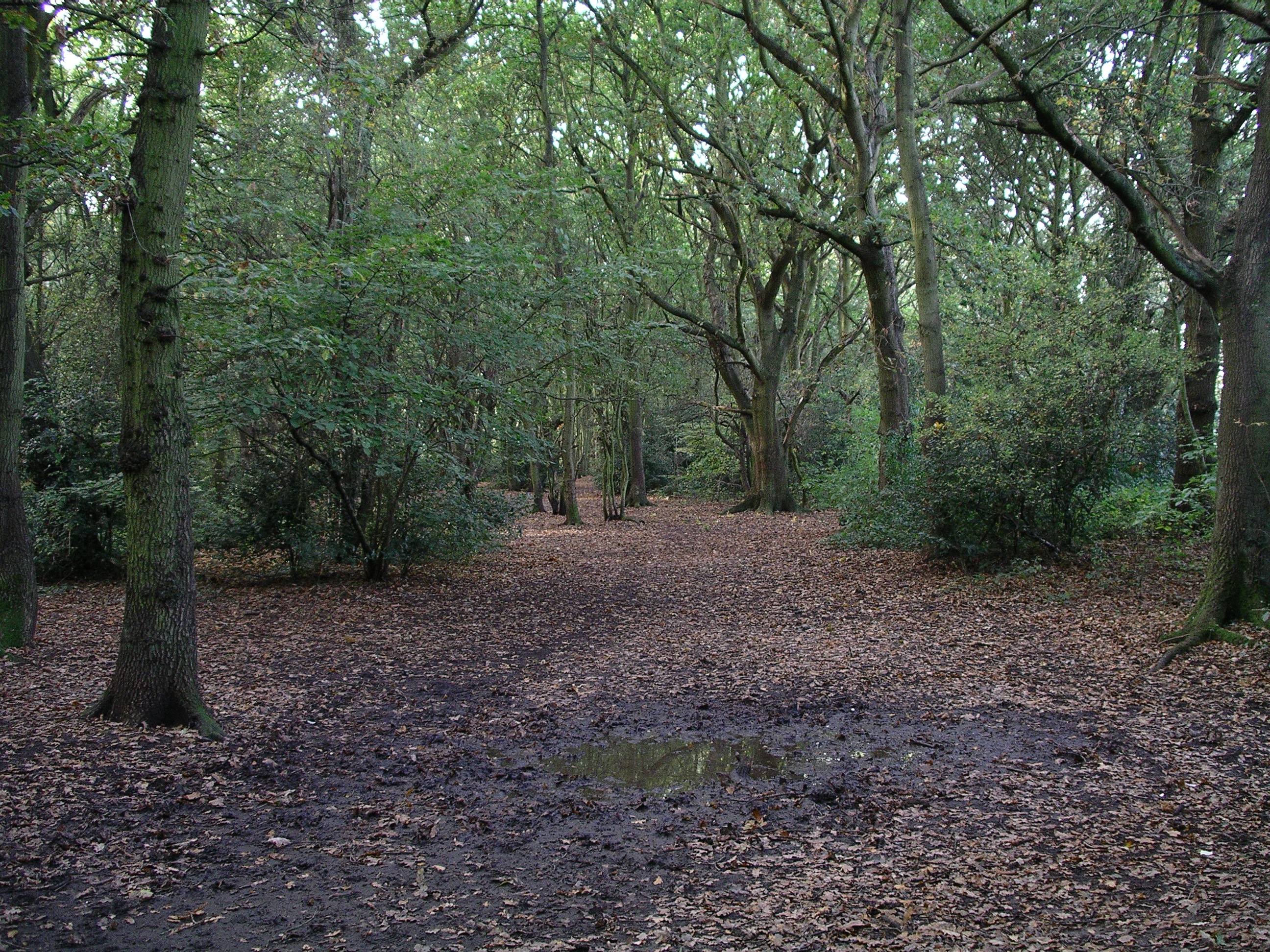 Photo of the woooded part of Hearsall Common, Coventry, England.